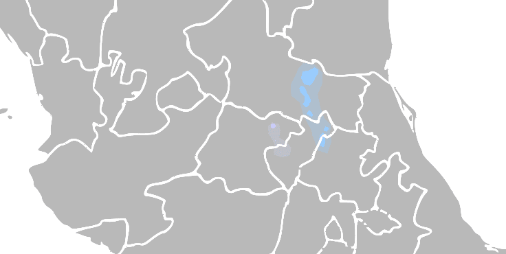 Pame and Chicimeca-Jonaz languages documentad areas in early 20th century and probable earlier extension